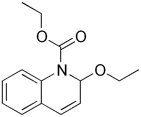 chemical structure of N-ethoxycarbonyl-2-ethoxy-1,2-dihydroquinoline (EEDQ)